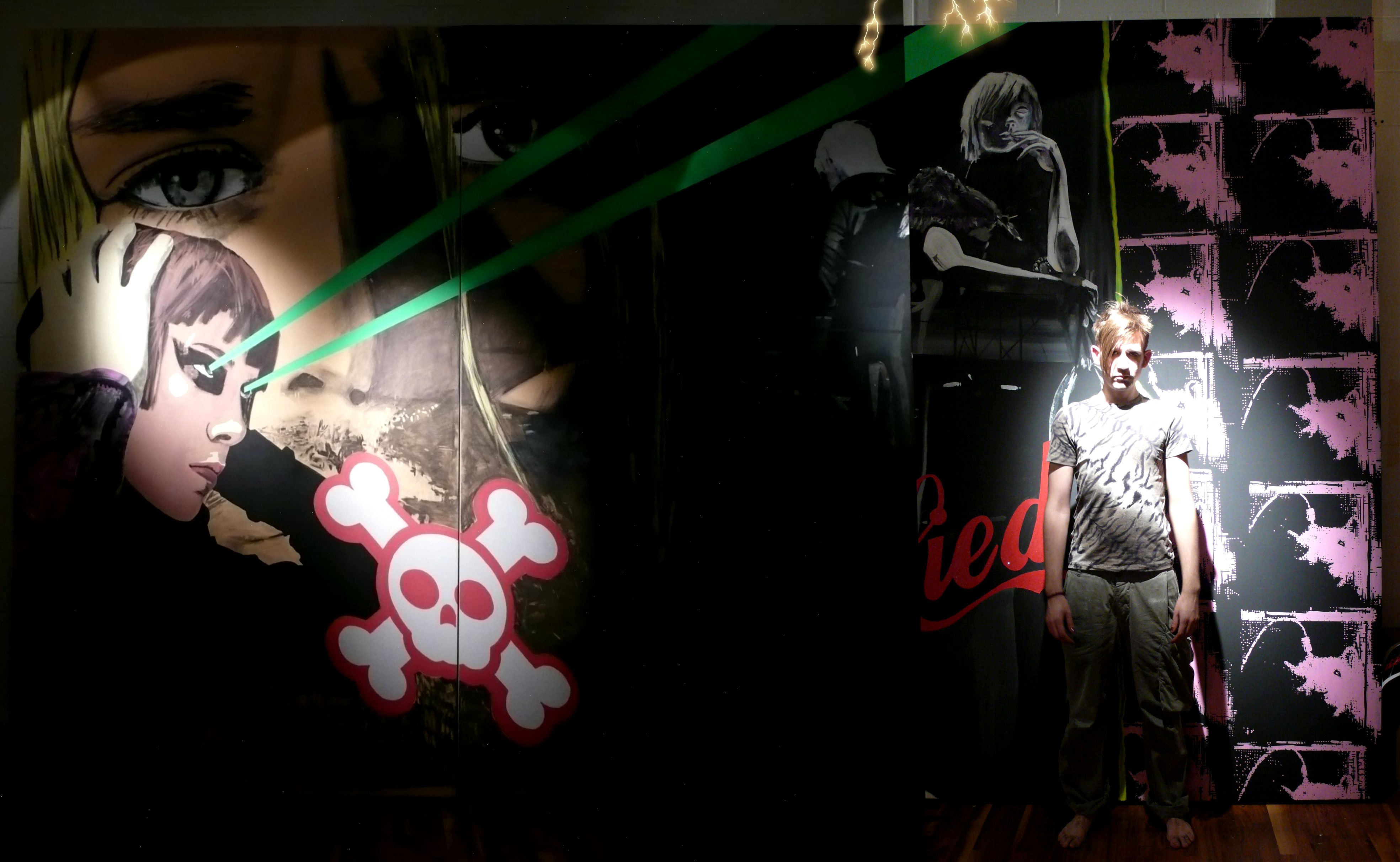 Stuart Stemple (